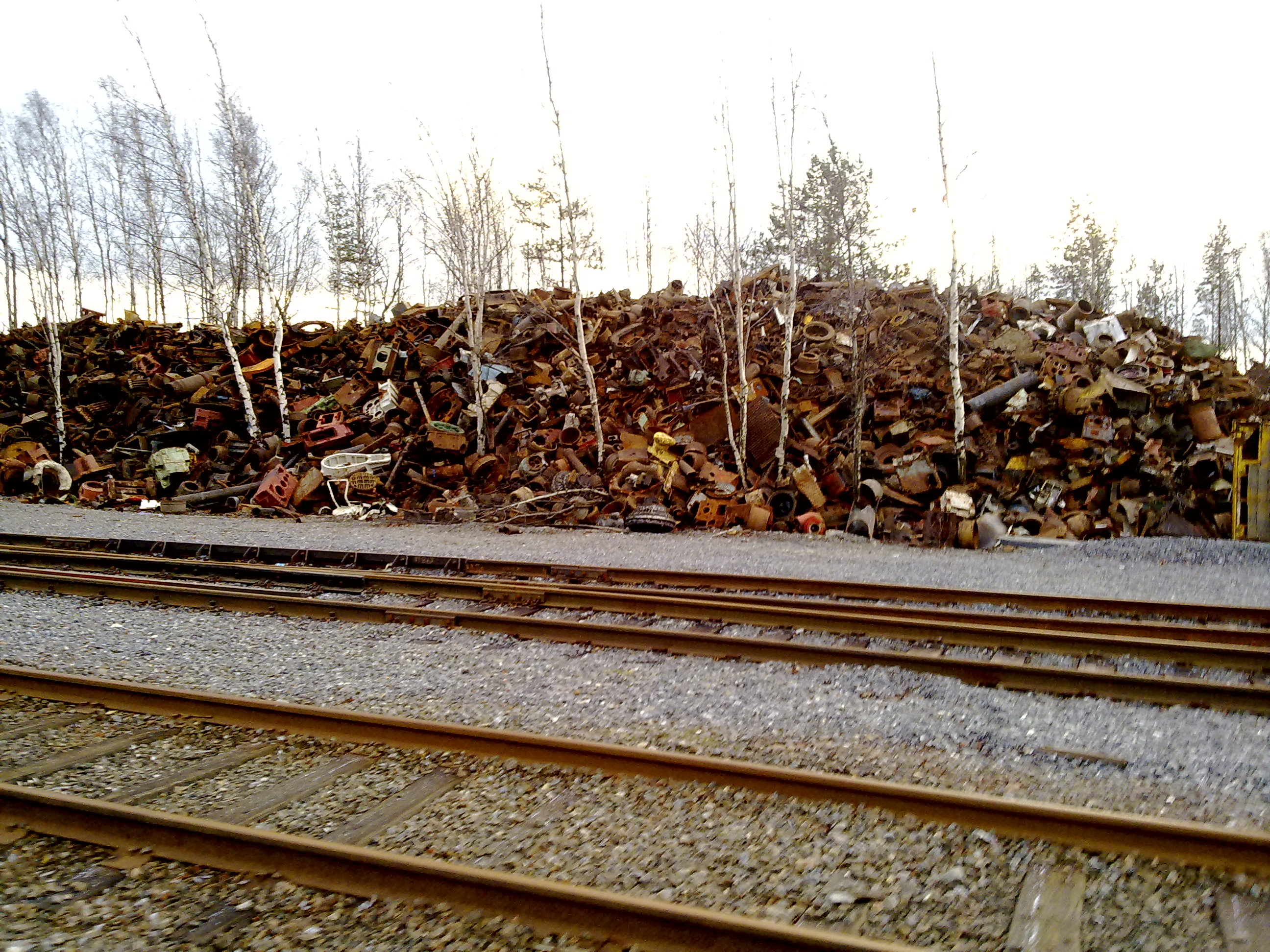 Scrap metal in Mäntyluoto, Pori.